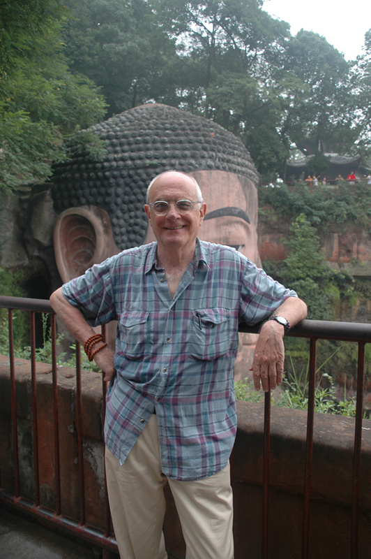 The italian writer Mario Biondi at the huge Buddha (71 mts) in Leshan, Sichuan, China